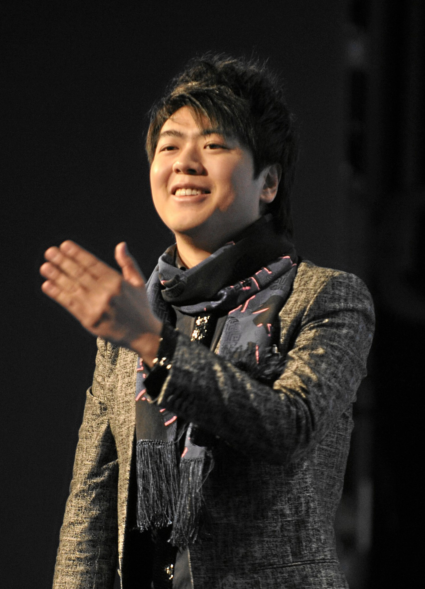 DAVOS/SWITZERLAND, 27JAN10 - Lang Lang, Pianist, People's Republic of China acknowledges the applause after playing the grand piano during the 'Presentation of the Crystal Awards' at the congress centre at the Annual Meeting 2010 of the World Economic Forum in Davos, Switzerland, January 27, 2010.. . Copyright by World Economic Forum. by Michael Wuertenberg. . . .